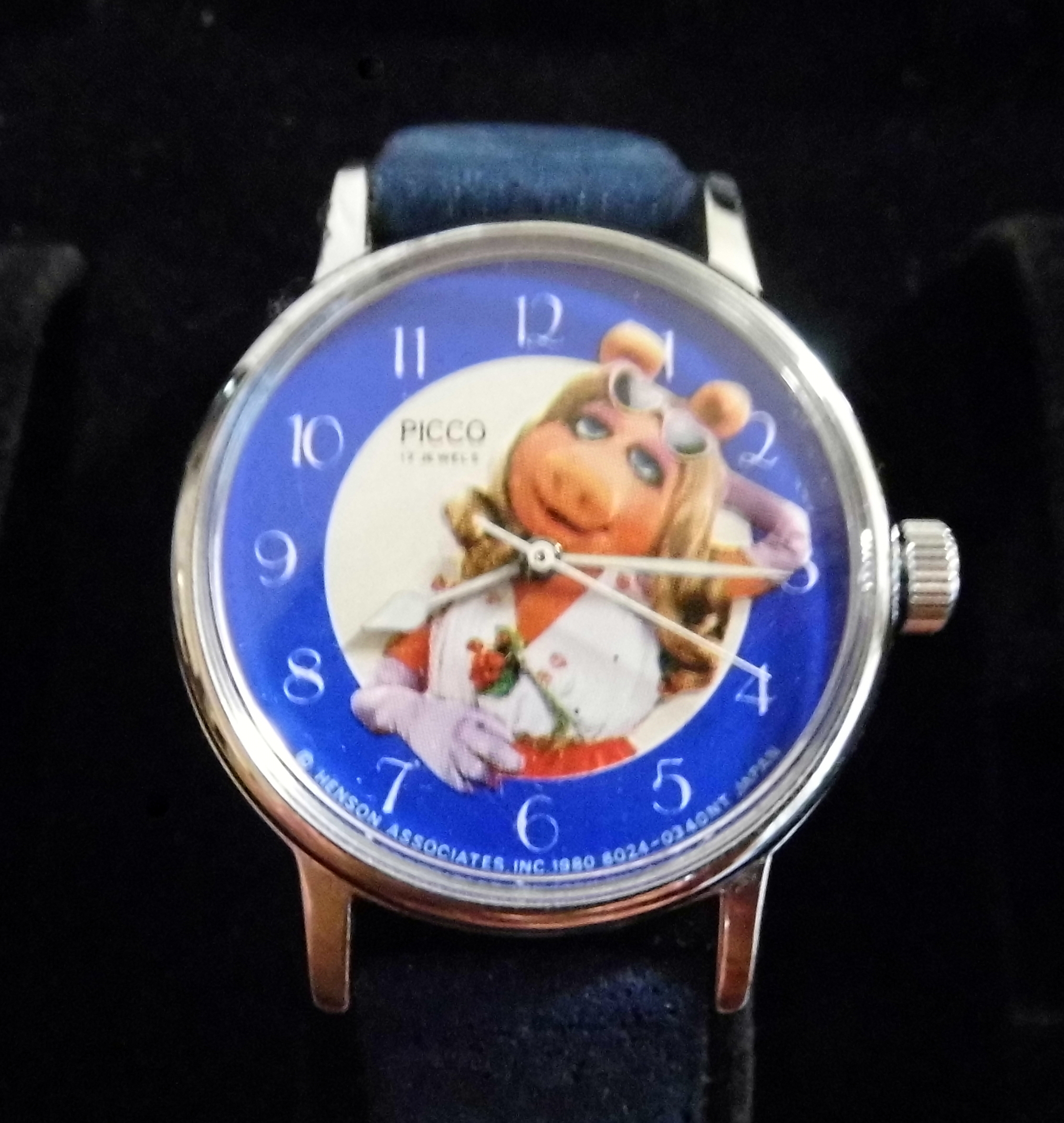 Vintage Miss Piggy 17-Jewels Character Watch by Picco, Copyright Henson Associates, Inc., Made in Japan, Circa 1980